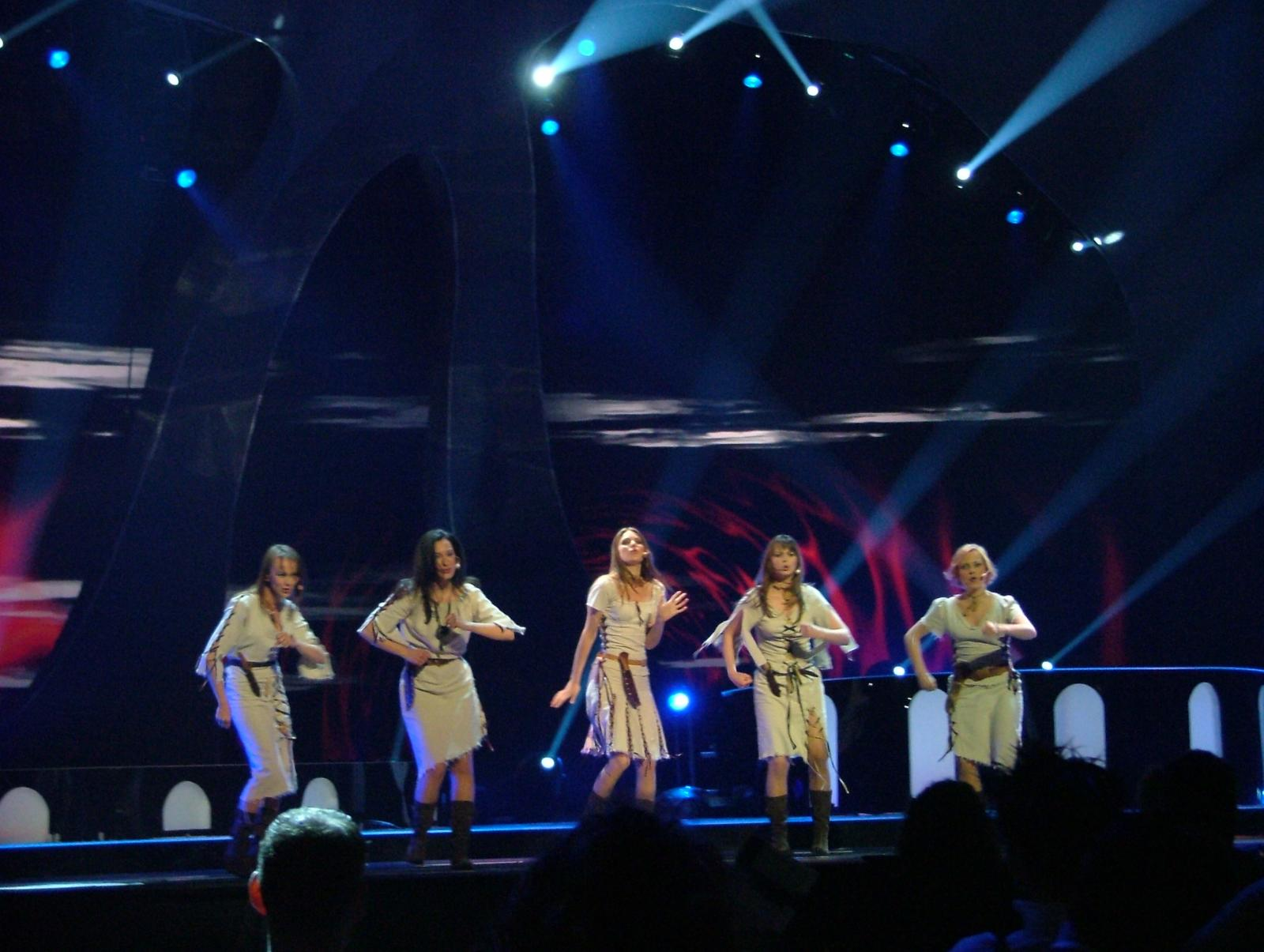 Neiokõsõ performing "Tii" at the rehearsals of the Eurovision Song Contest 2004 semi-finals for Estonia.